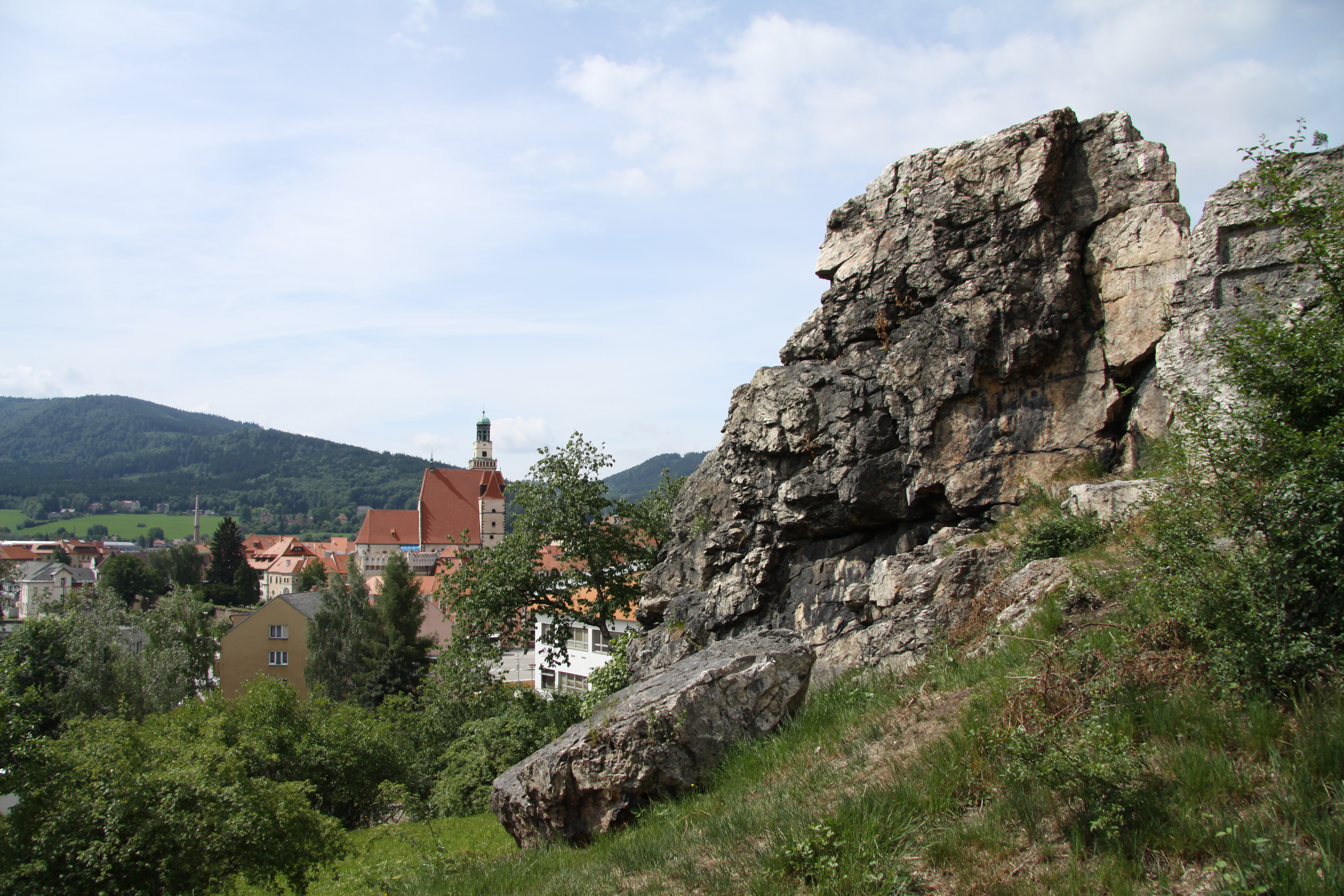 Natural monument Žižkova skalka in Prachatice, Prachatice District, Czech Republic - Google Maps - Google Earth